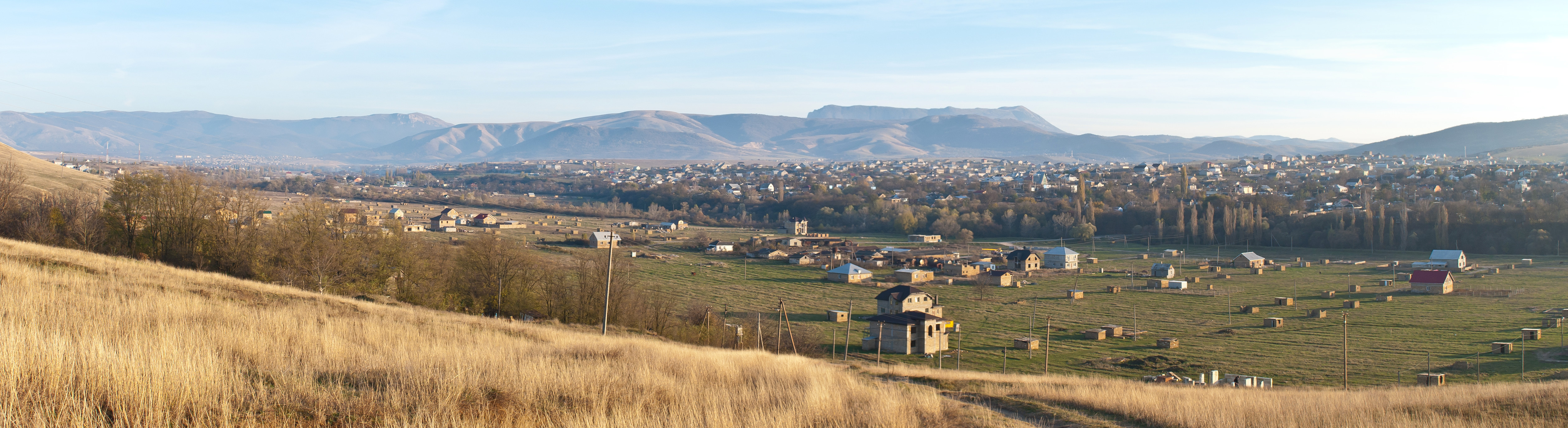 View of the Salgir valley at the village Pionerske. At the center one can see the north slopes of the Chatyr-Dag mountain and far away - its upper plateau.